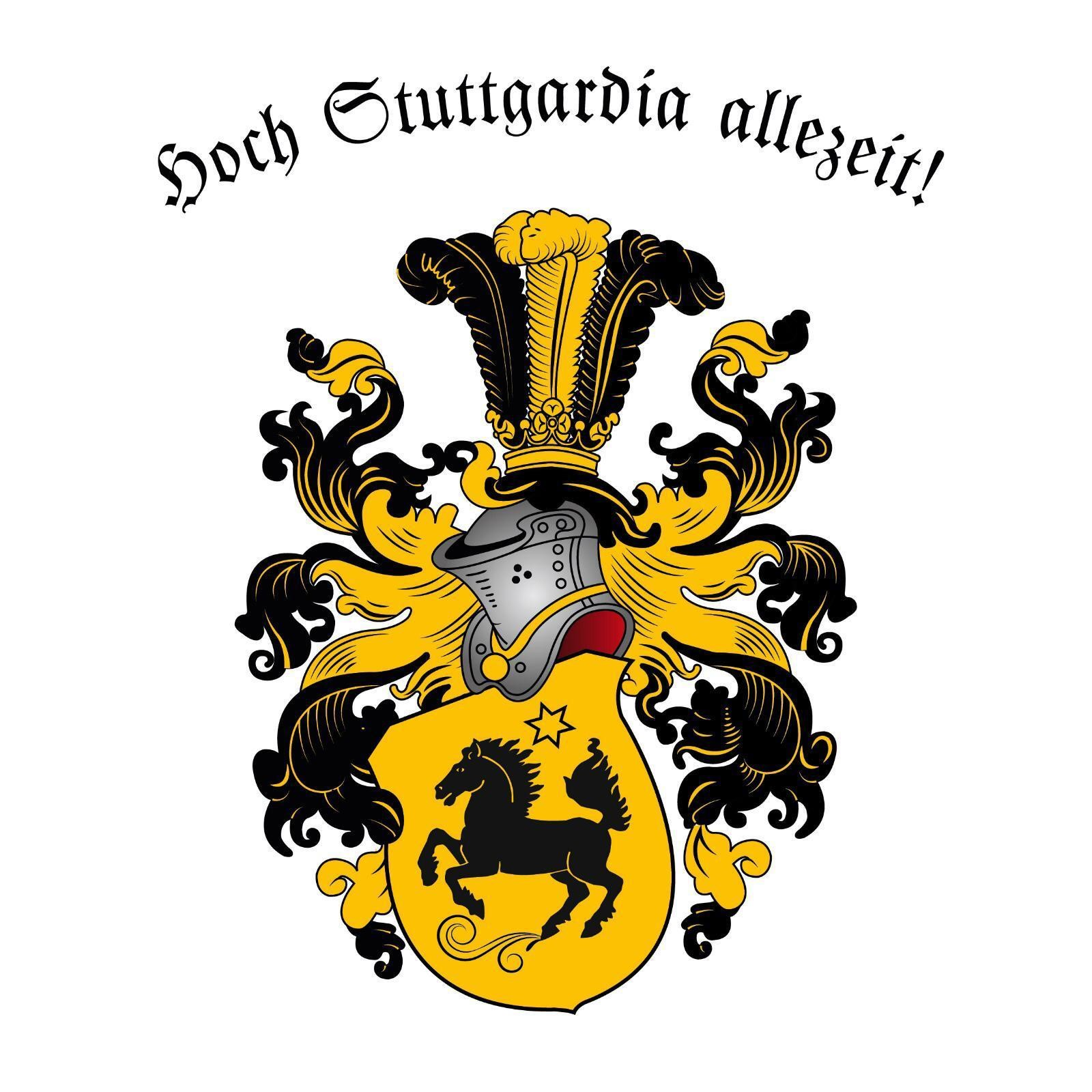 Official Coat of arms of the Academic Society Stuttgardia